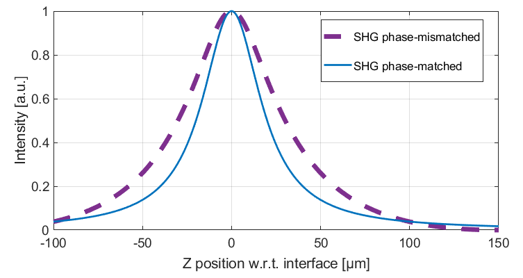 Intensity SHG with a Gaussian beam, phase-matched (blue) or not (violet).